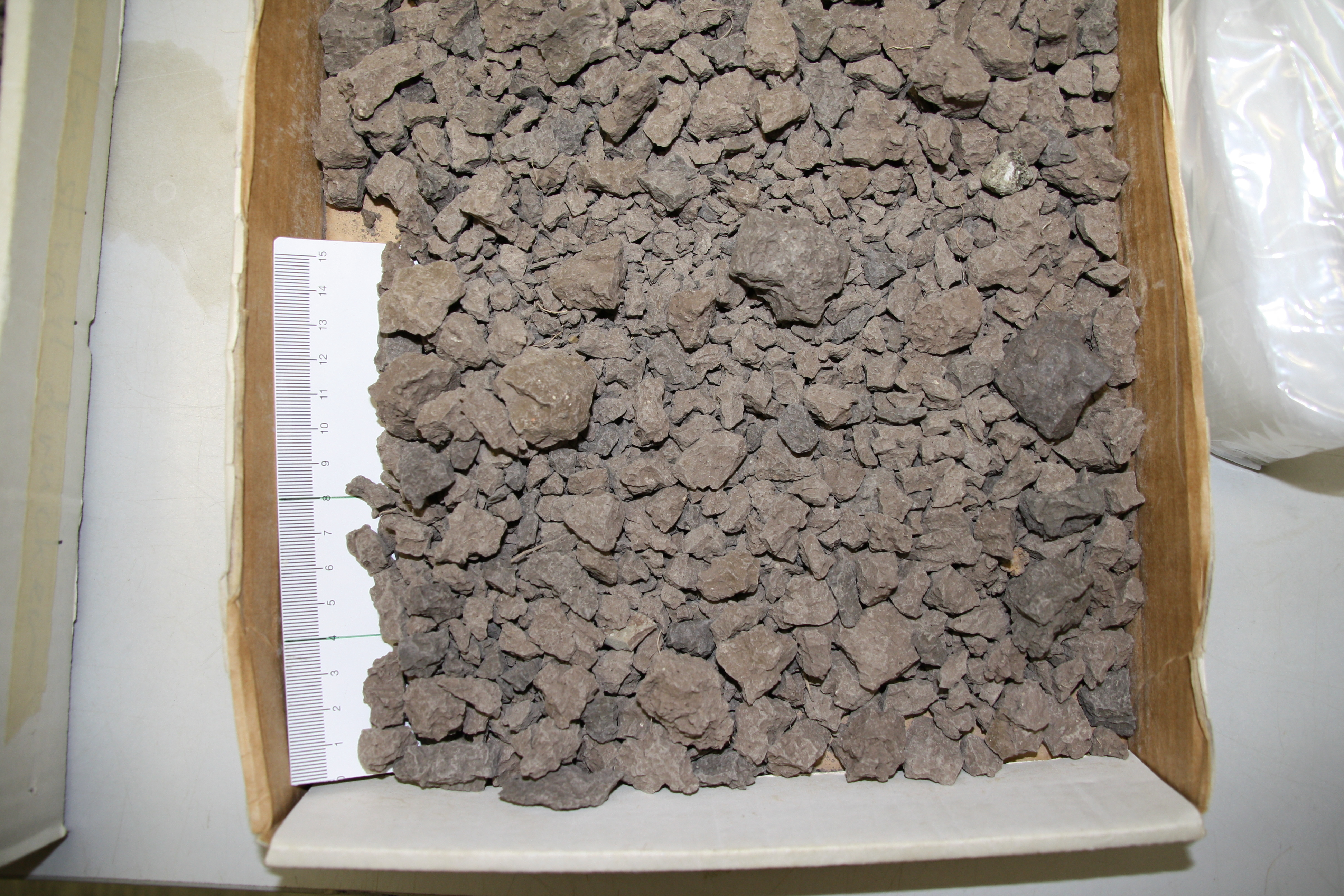 A blocky structure developes abiotically due to periodic swelling and shrinking in loamy, silty and clayey soils. It is characterized most evidently by sharp edges.